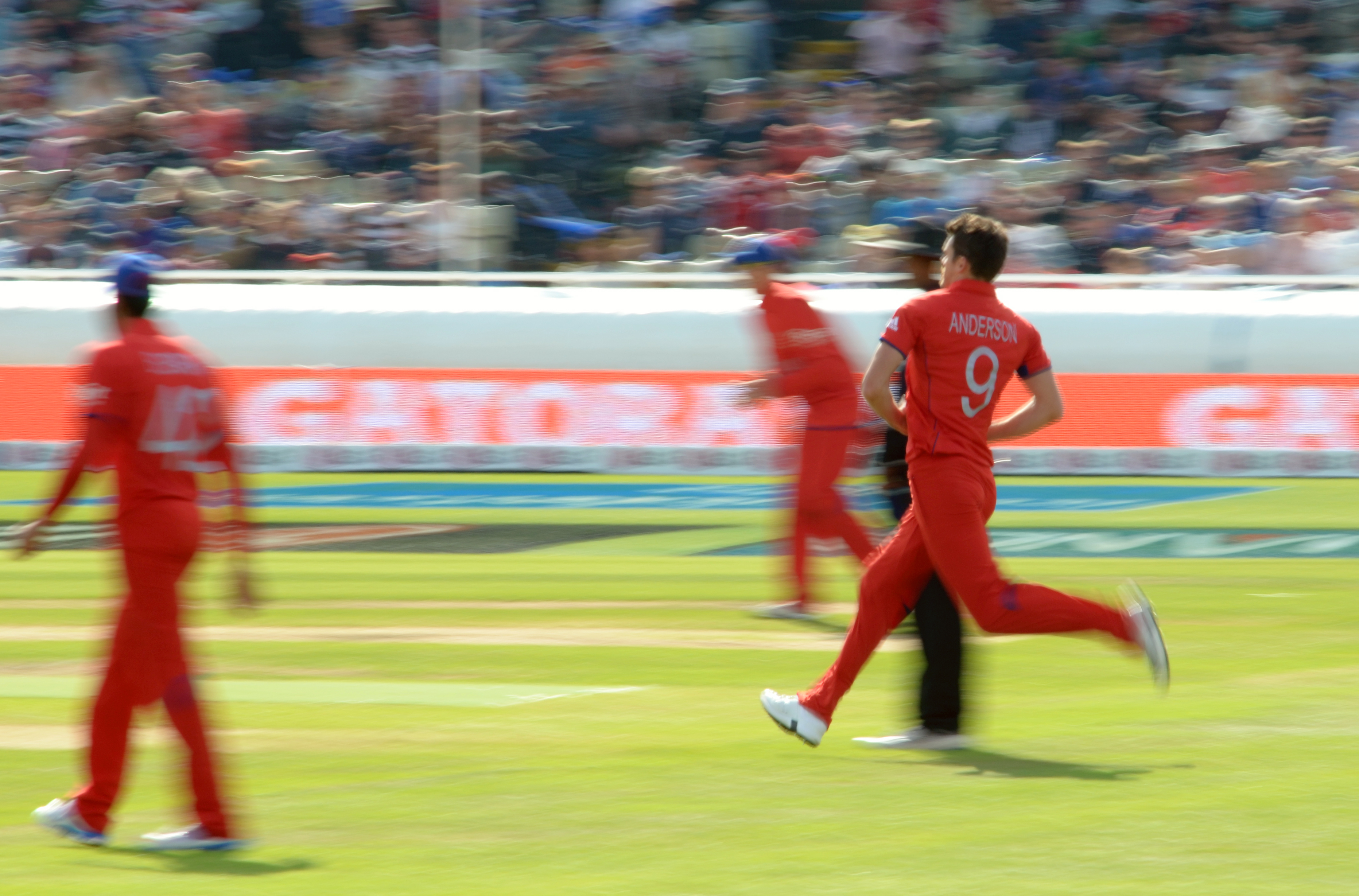 James Anderson runs into bowl during the England v Australia game of the 2013 ICC Champions Trophy at Edgbaston.